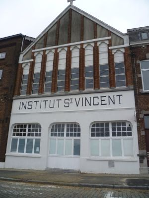 Institut Saint-Vincent of Obourg